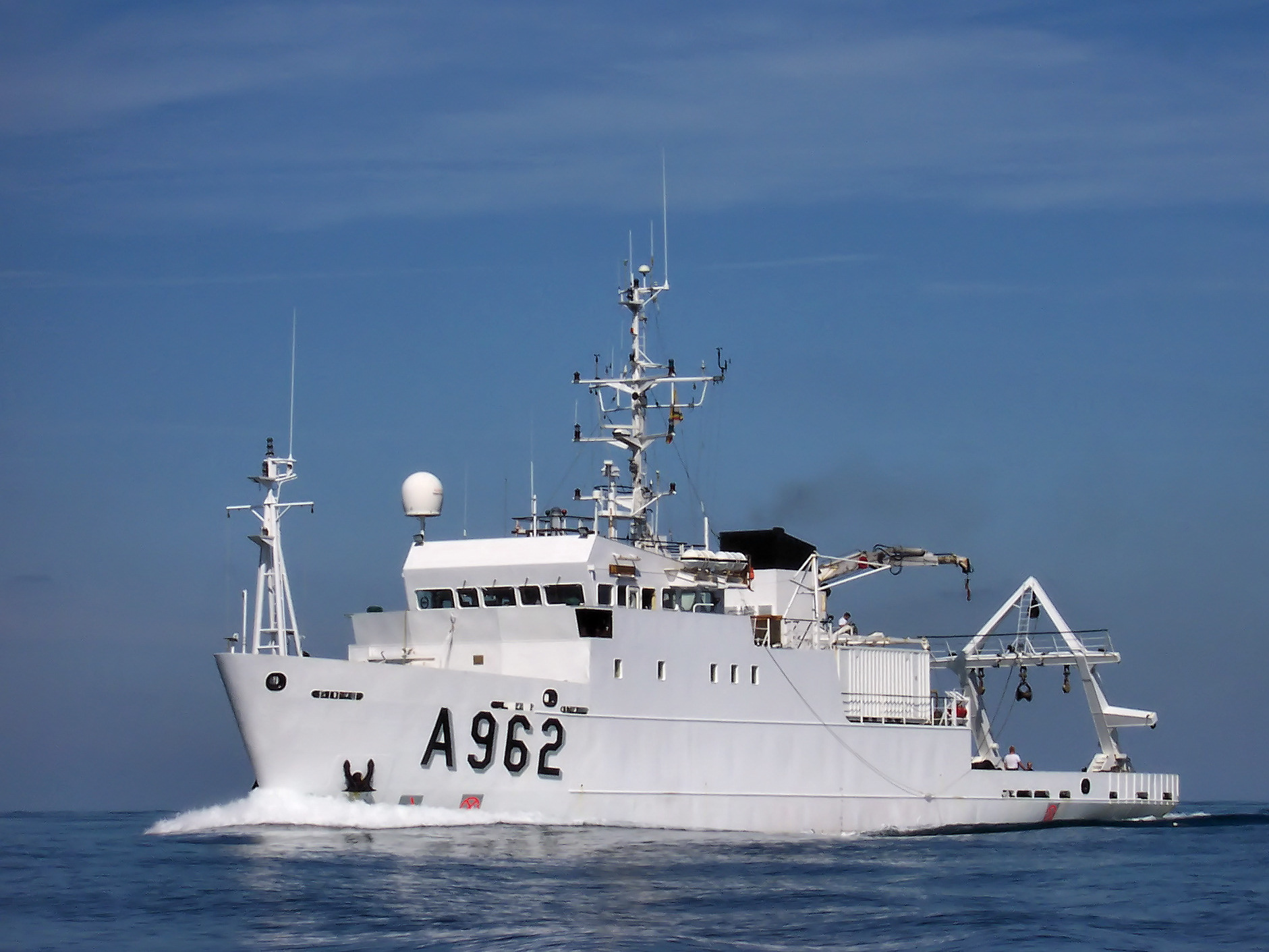 RV A962 Belgica, oceanographic ship IMO 8222563 Launched: 5th July 1984 at the Boel Yards (shipyard), Temse, and christened by H.R.H Queen Fabiola Length: 50.90 m Width: 10.00 m Depth: min./max. 4.20 m/4.55 m Gross registered tonnage: 765 t Net registered tonnage: 232 t Water displacement: 1132 t Call sign: ORGQ Propulsion: ABG diesel engine of 1150 KW (or 1570 HP) type 6 MDZC-1000-150 A electrical engine of 82 KW as auxiliary propulsion 1 bow and 1 stern propeller, hydraulically driven, 150 KW each variable pitch propeller Speed: 12 knots Power supply: 2 diesel propelled alternators of 275 KW - 325 KVA, 440 V, 60 Hz diesel propelled group of 100 KW - 125 KVA, 440 V, 60 Hz no-break static transformer and regulator 220V - 15 KVA, 50 Hz In order to obtain the best operating conditions, the rolling of the ship can be limited by an anti-roll stabiliser (passive roll tank) with a content of 10 tonnes of water.